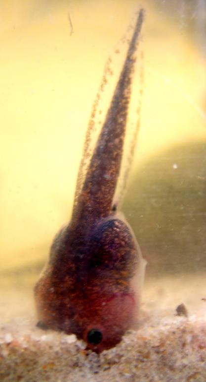 Scaphiophryne gottlebei